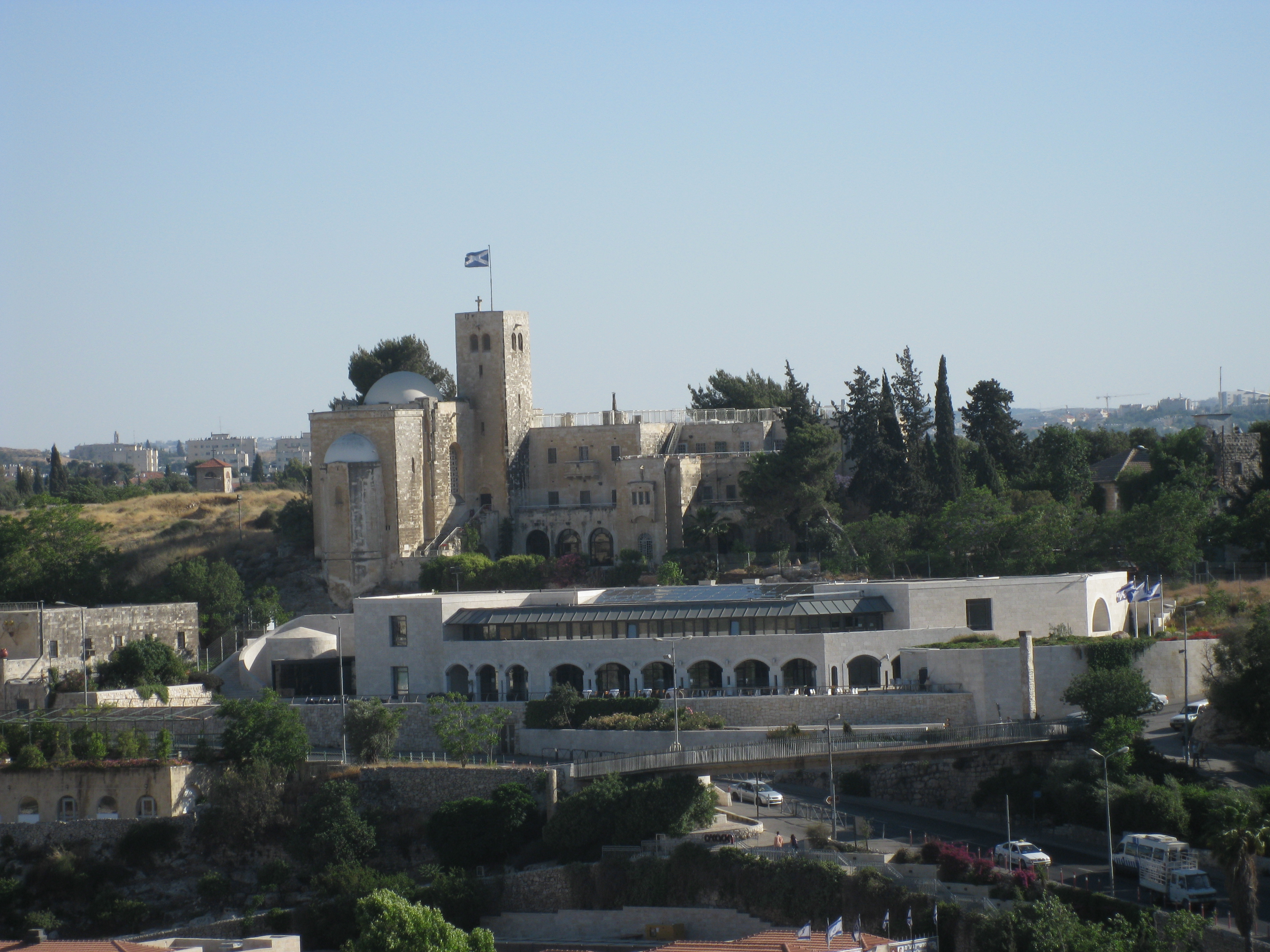 St. Andrew's Church and Menachem Begin Heritage Center, Jerusalem